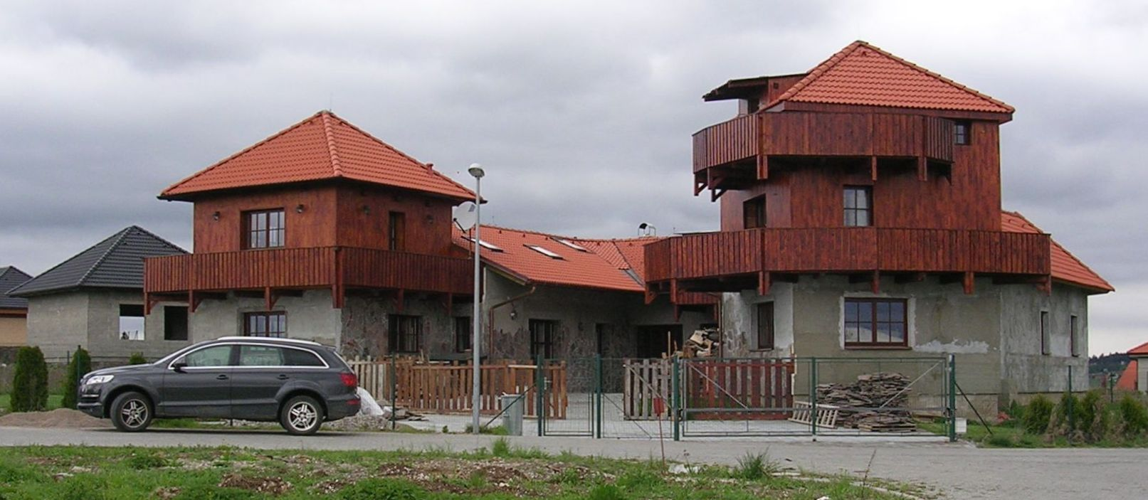 Trnová, Central Bohemian Region, the Czech Republic.